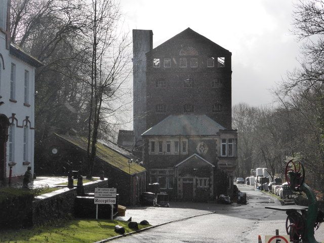 Cwmavon works